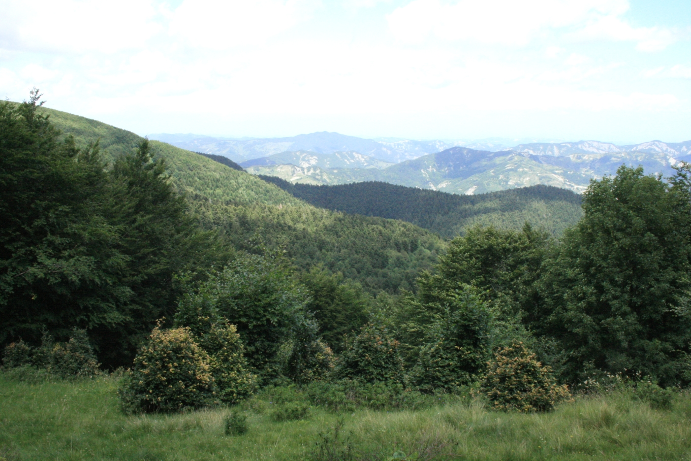 View of the Apennine mountains in Foreste Casentinesi, Monte Falterona, Campigna National Park, Tuscany, Italy. Foreste Casentinesi of the Temperate broadleaf and mixed forests ecoregion.